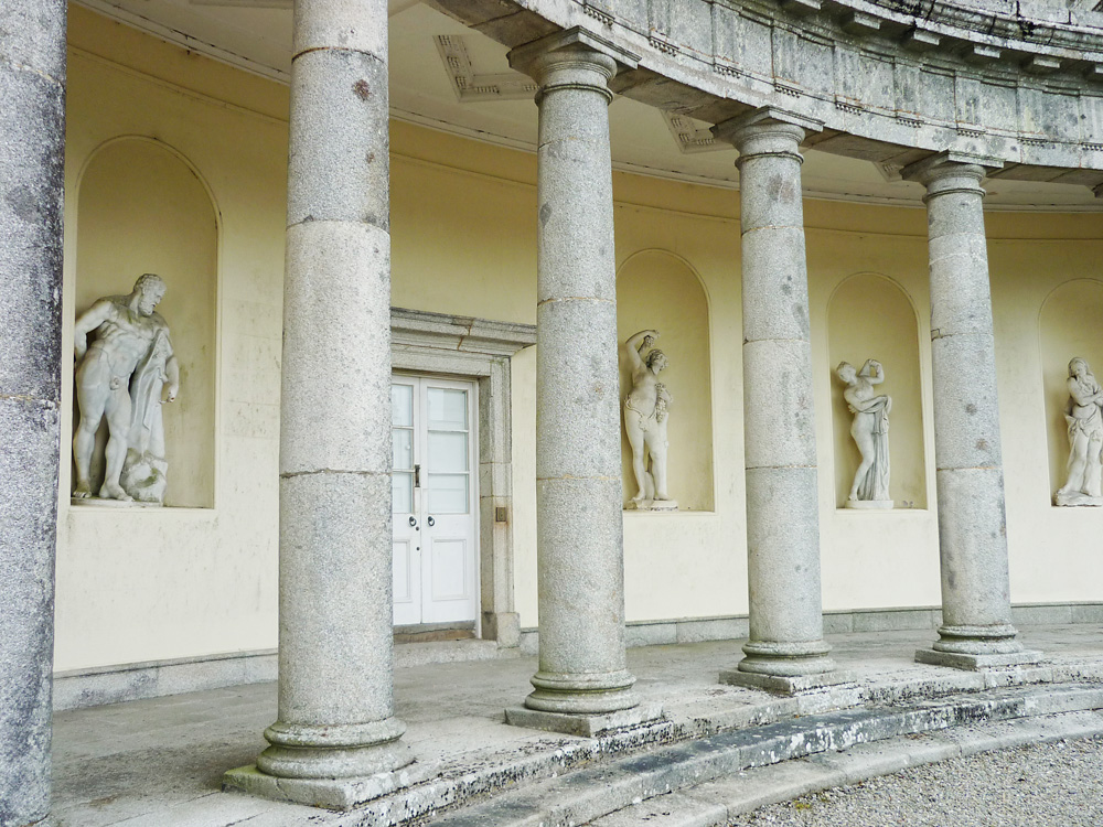 Russborough House – Detail of the facade